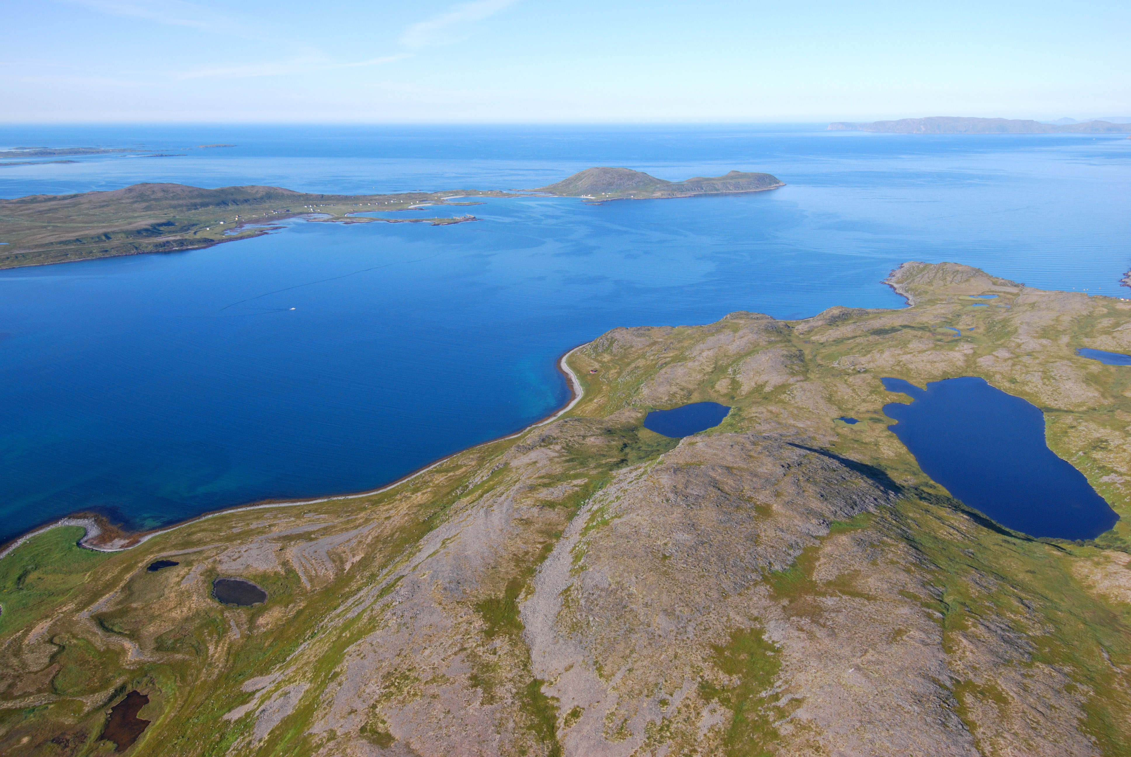 Rolvsøy i Måsøy kommune